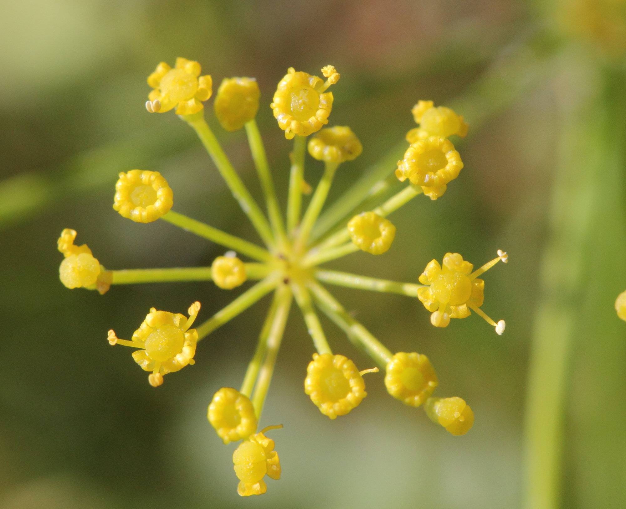 Dill, blossom detail